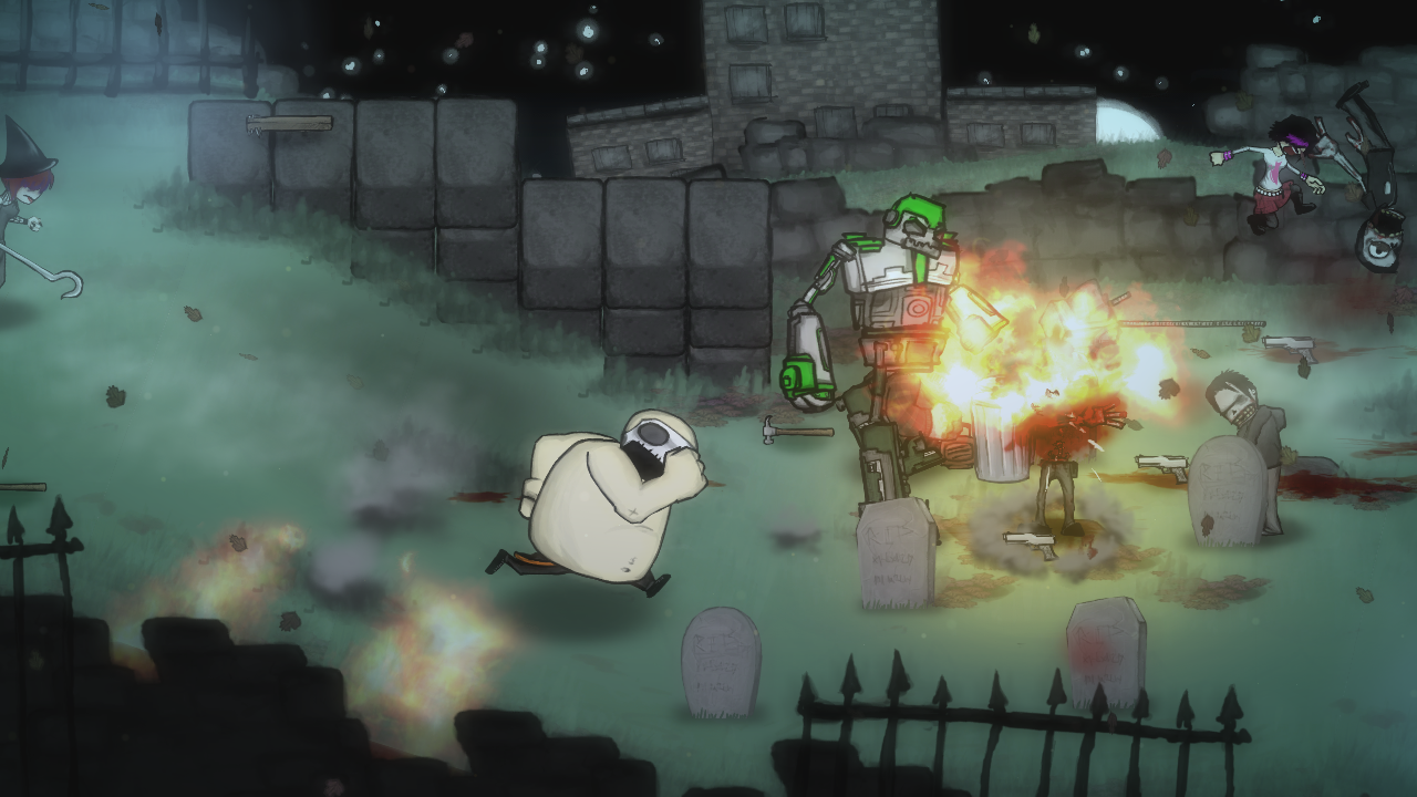 Screenshot from the video game Charlie Murder